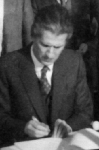 Ahmed Taleb Ibrahimi rédige le traité de fraternité et de concorde qui sera ensuite signé par les président de la Tunisie et l'Algérie, le 19 mars 1983.